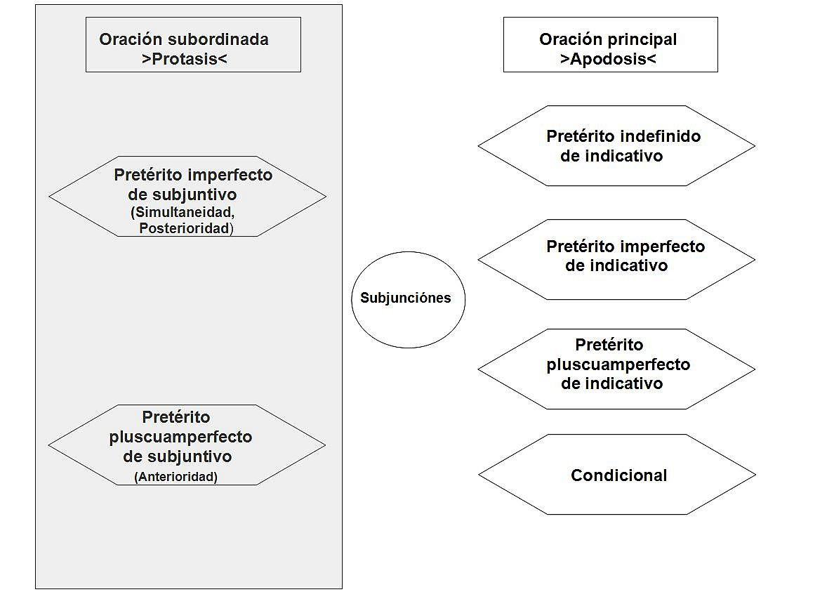 Correspondencia de tiempos, al pasado